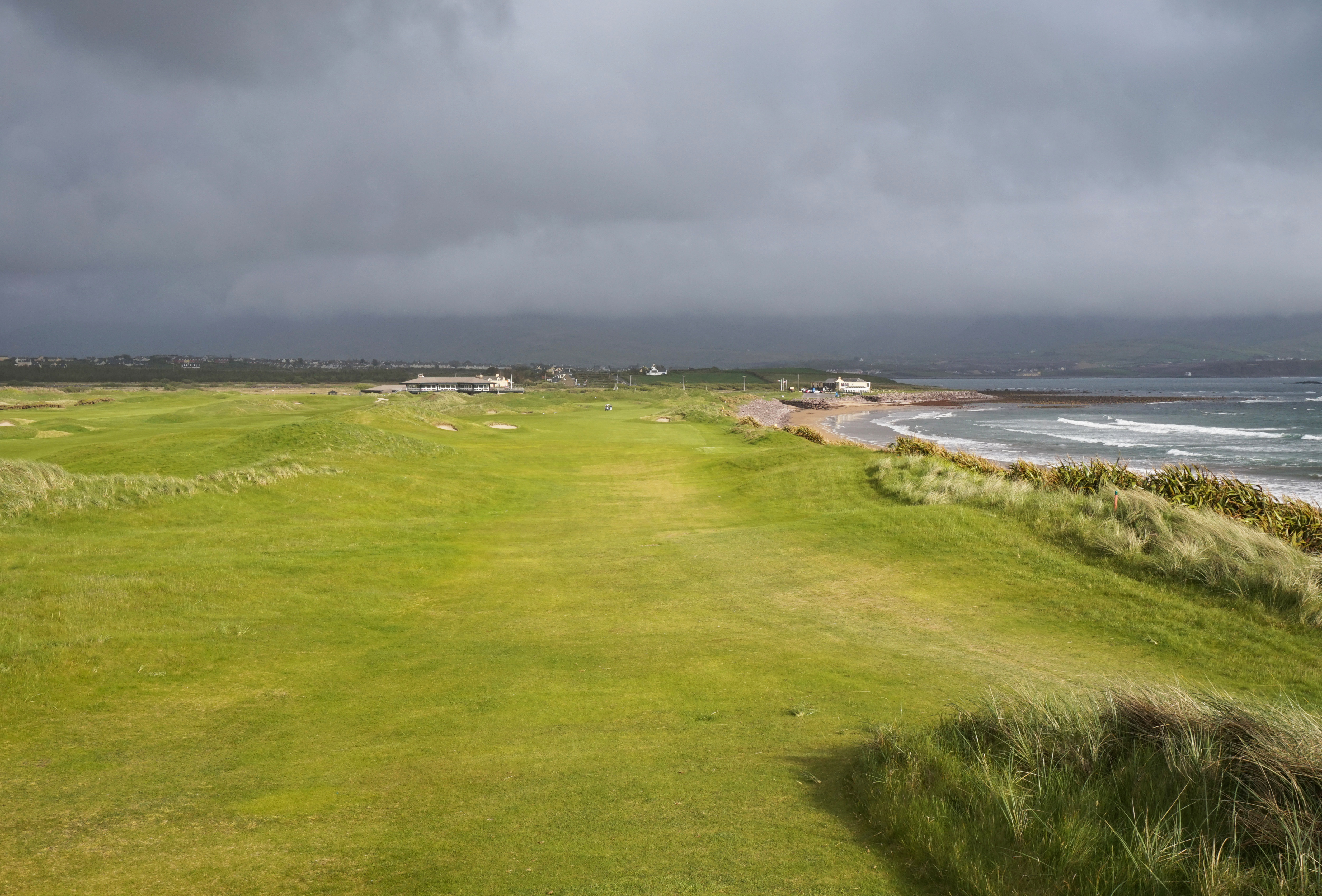 18th hole of Waterville Golf Links, County Kerry, Ireland